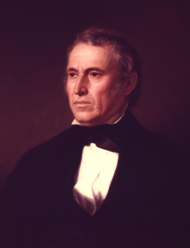 Zachary Taylor, 12th President of the United States.